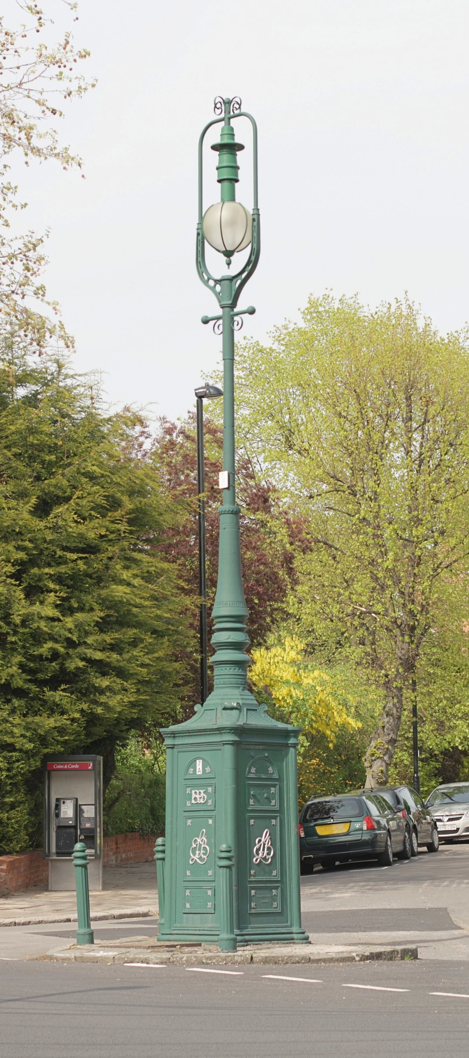 Original lamp standard dated 1905. Manufactured by Gallender Company Limited, London. This lamp post has been given protection by English Heritage and listed as Grade II. Situated at the junction of west end of Park Hill at the point it joins Mount Park Road, Ealing W5, UK It is part of Ealing's original electric street lighting system which started in 1894. In the background is an example of the current style of black-gloss lamp posts which started to be installed in 2007.